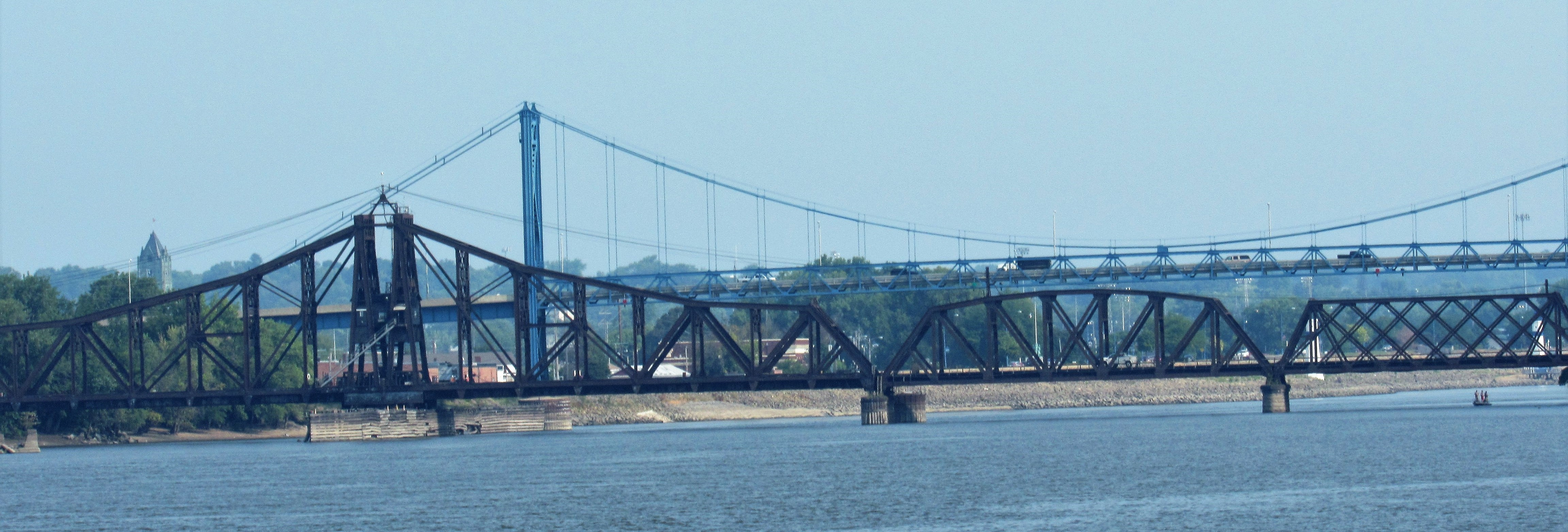 Clinton Railroad Bridge and the Gateway Bridge over the Mississippi River at Clinton, Iowa.